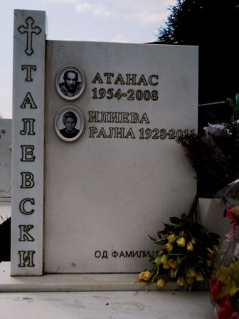 The grave of Atanas Talevski in Ohrid.